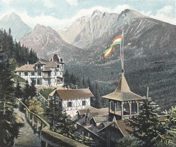 Complex of two hotels (Kolbach and Rosa) situated close to Hrebienok in slovakian Tatra mountains. Photo taken between 1895 (date of building of the second hotel) and 1918 (dissolution od Austria-Hungary).